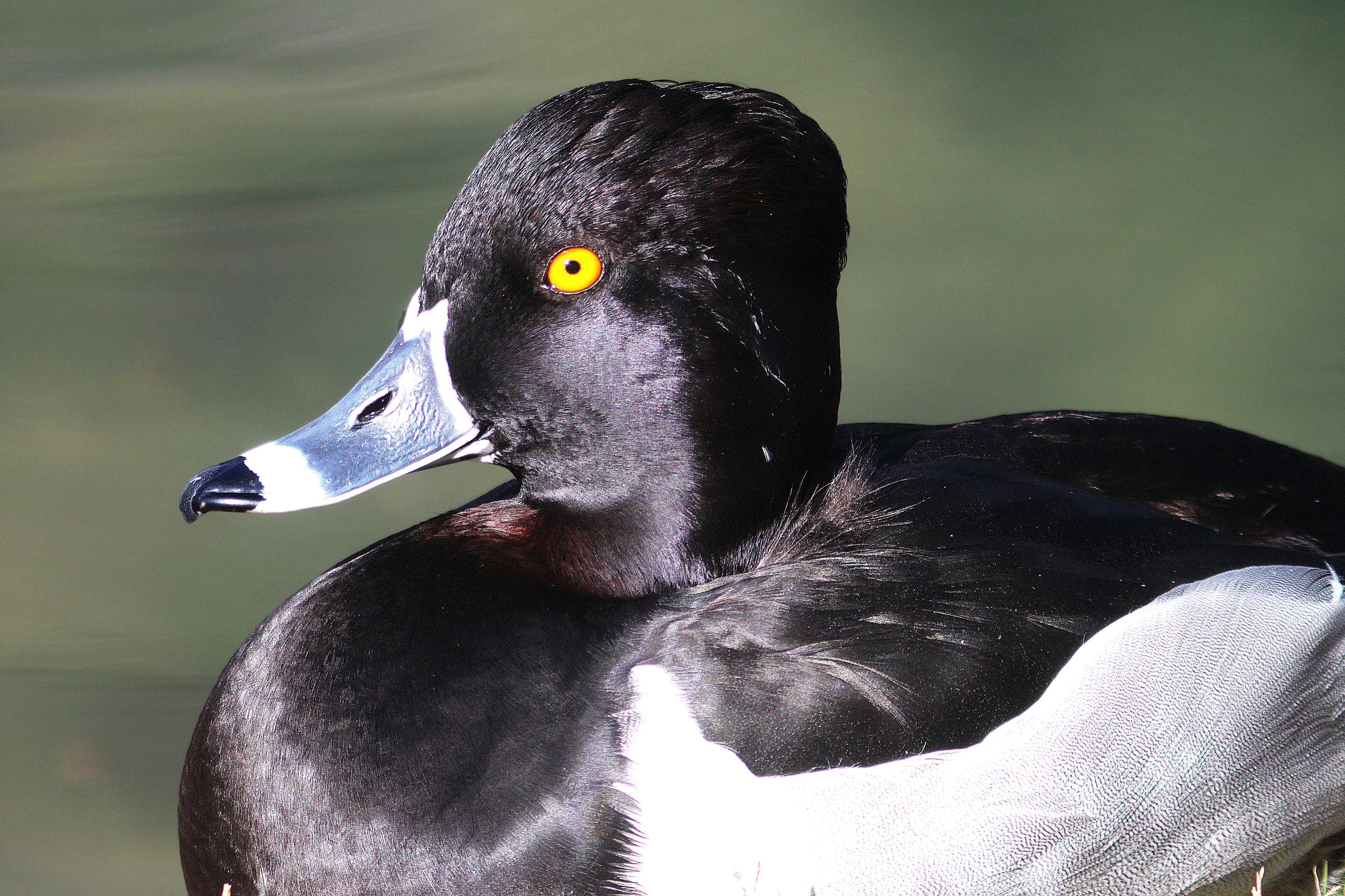 ABA AREA BIRDS: My Photo "Life List"